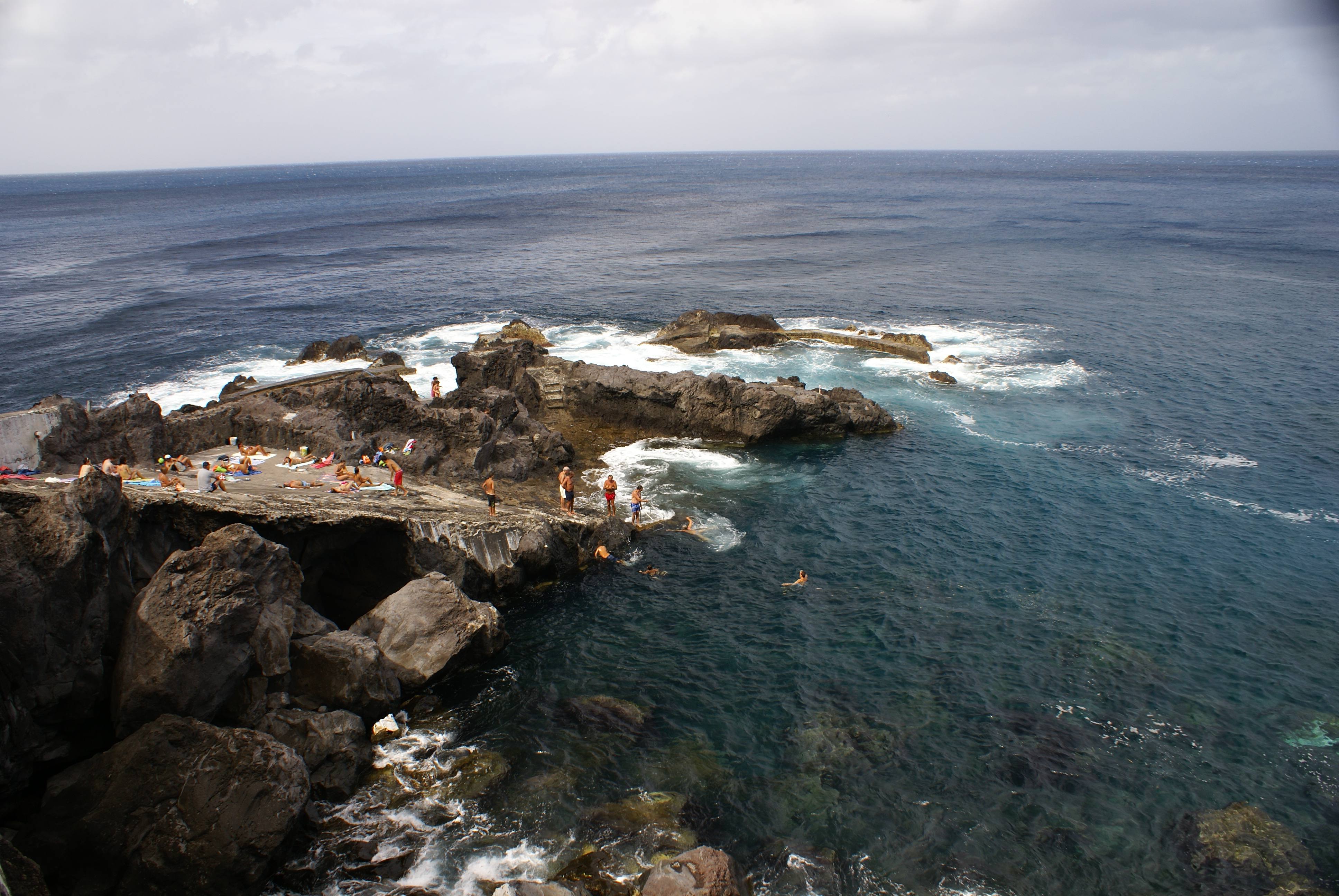 Fishing port of Salão, Salão, Horta, Faial (Azores), Portugal